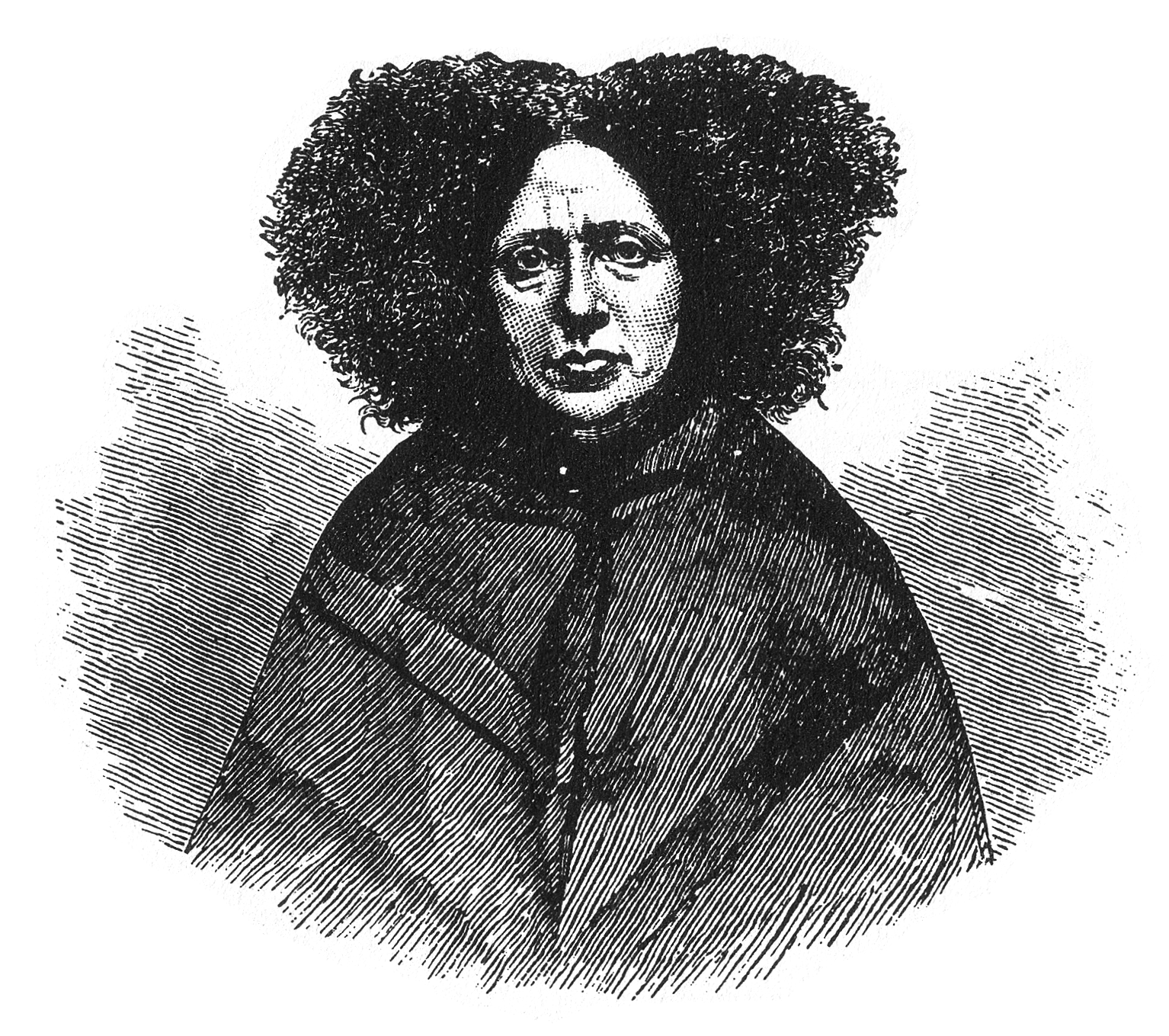 Figure 19 from Charles Darwin's The Expression of the Emotions in Man and Animals. Caption reads "FIG. 19.—From a photograph of an insane woman, to show the condition of her hair."